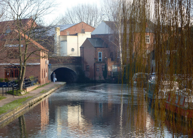 Chesterfield canal at Retford Looking towards the town centre from the lock.